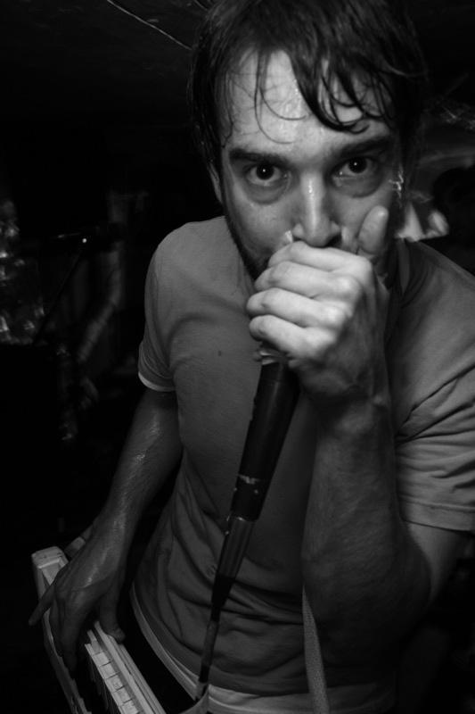 Mose Giganticus at Danger Danger Gallery in Philadelphia, PA